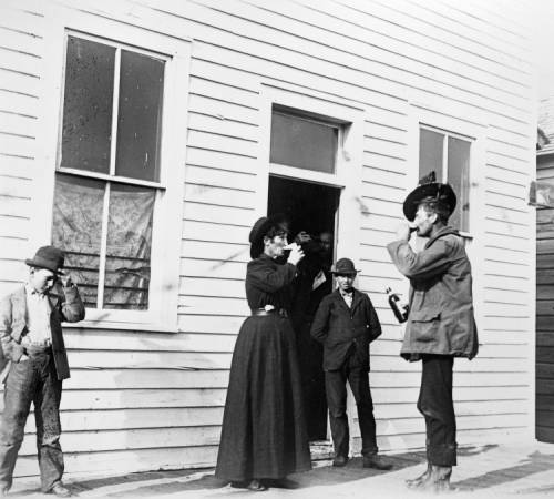 Calamity Jane and Teddy Blue Abbott drink beer at a bar in Gilt Edge, Montana, circa 1887. Mrs. E. G. Worden, photographer. In the collection of the Montana Historical Society Photograph Archives, 941-409